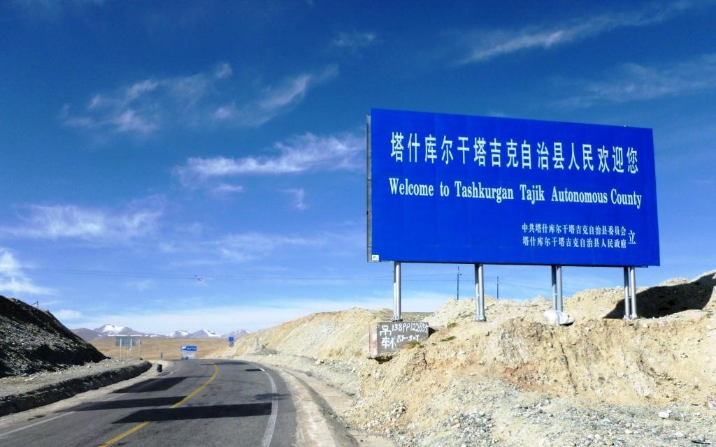 I took this photo from the car on a trip from Kashgar to Tashkurgan.